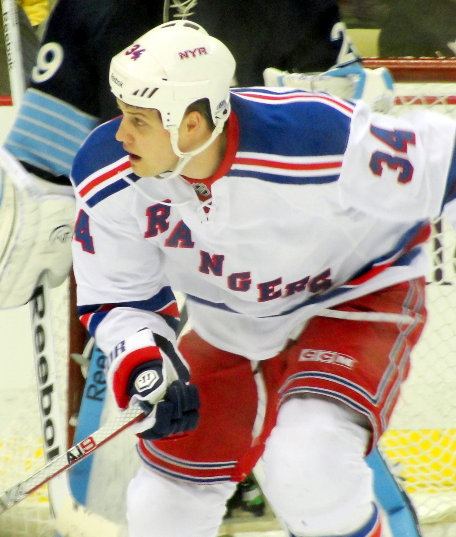 New York Rangers forward John Mitchell during a January 6, 2012 game against the Pittsburgh Penguins at Consol Energy Center in Pittsburgh, PA.